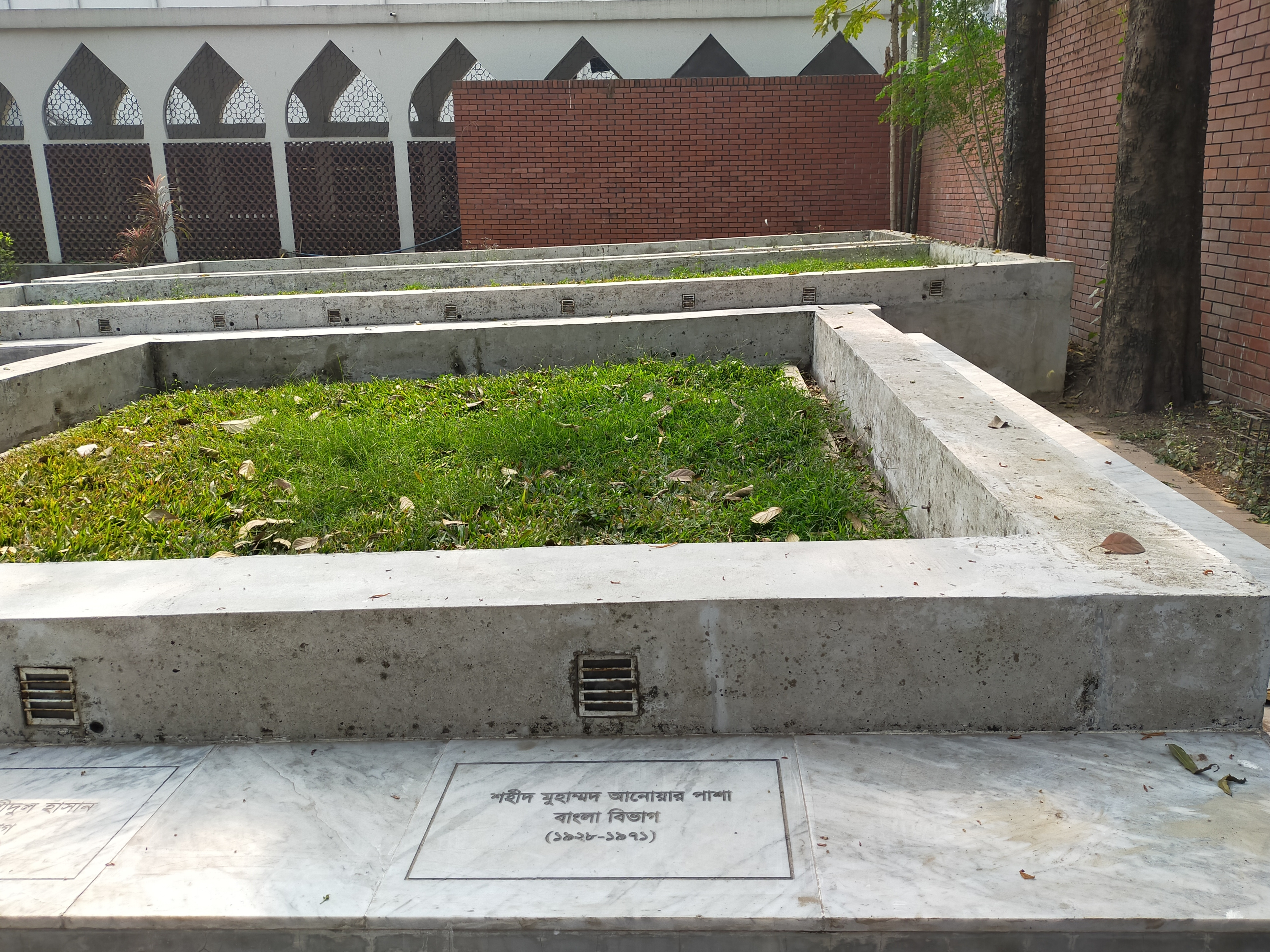 Grave of Anwar Pasha (1928–1971), by the side of Dhaka University central mosque, a Bangladeshi novelist and a martyred intellectual of 1971.